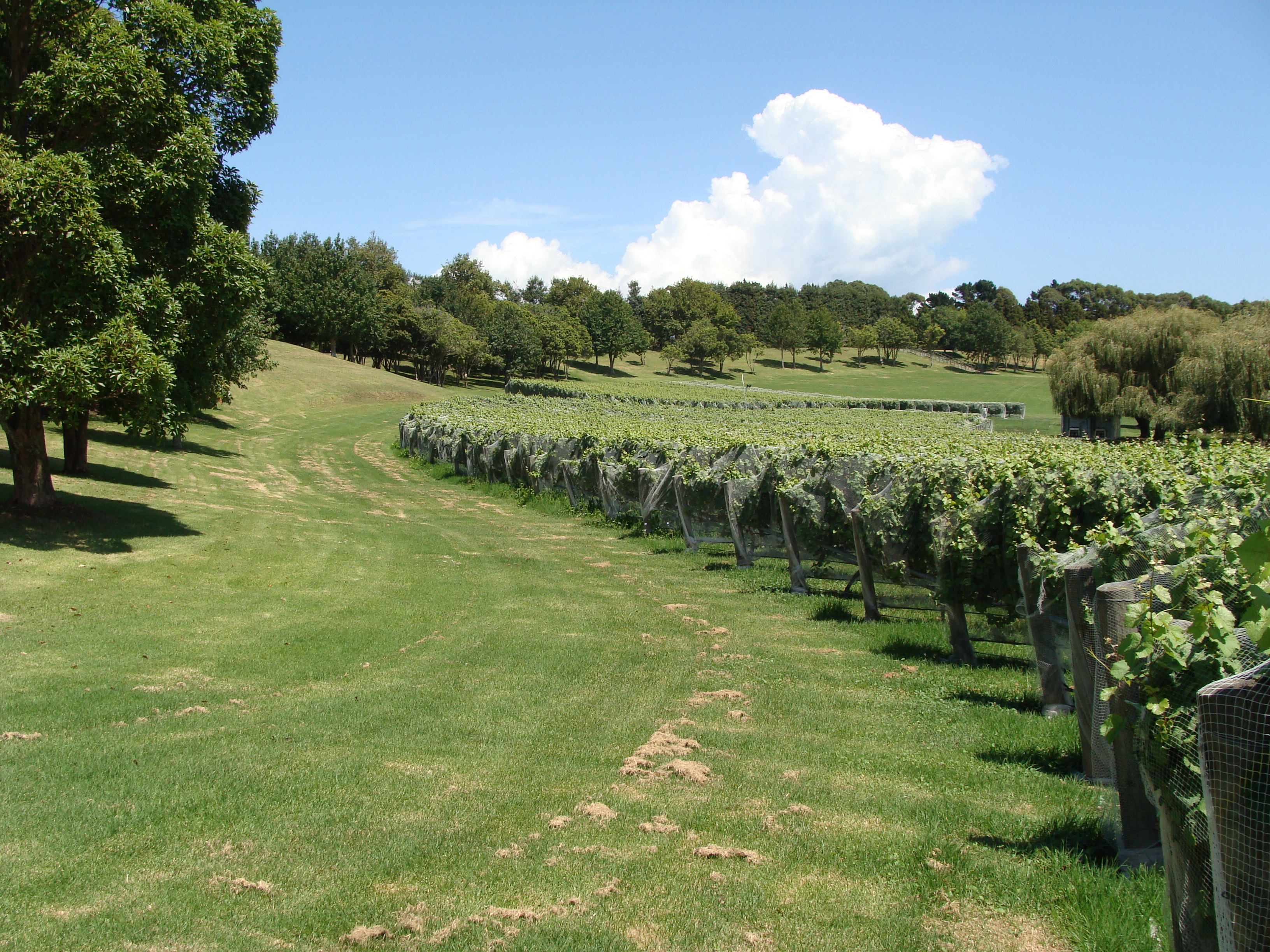 Villa Maria Winery's Vineyards inside the volcanic tuff crater of Waitomokia volcano, Auckland, New Zealand.